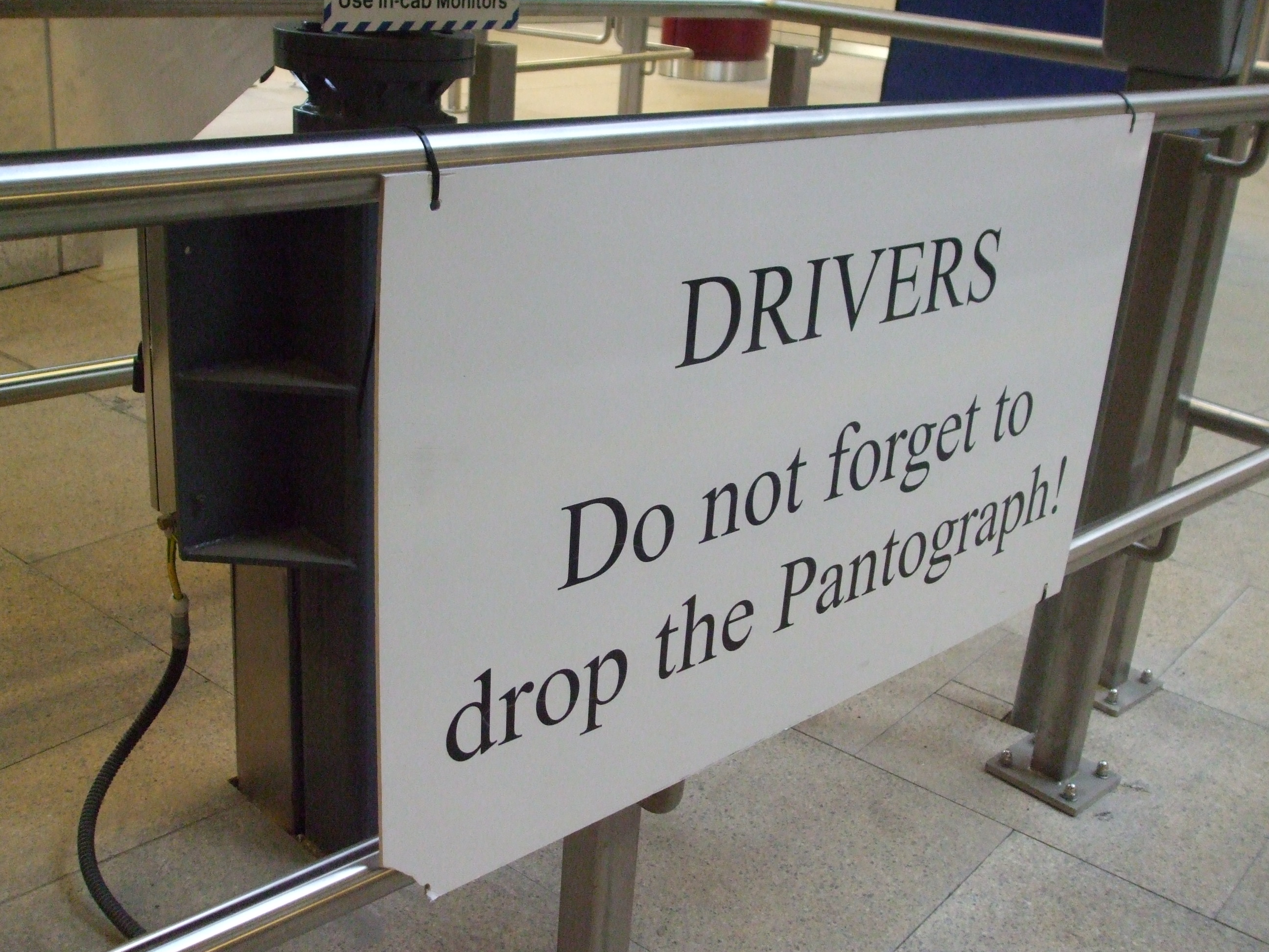 Farringdon station Thameslink southbound platform sign warning drivers to lower pantographs when changing from overhead to third rail electrification.